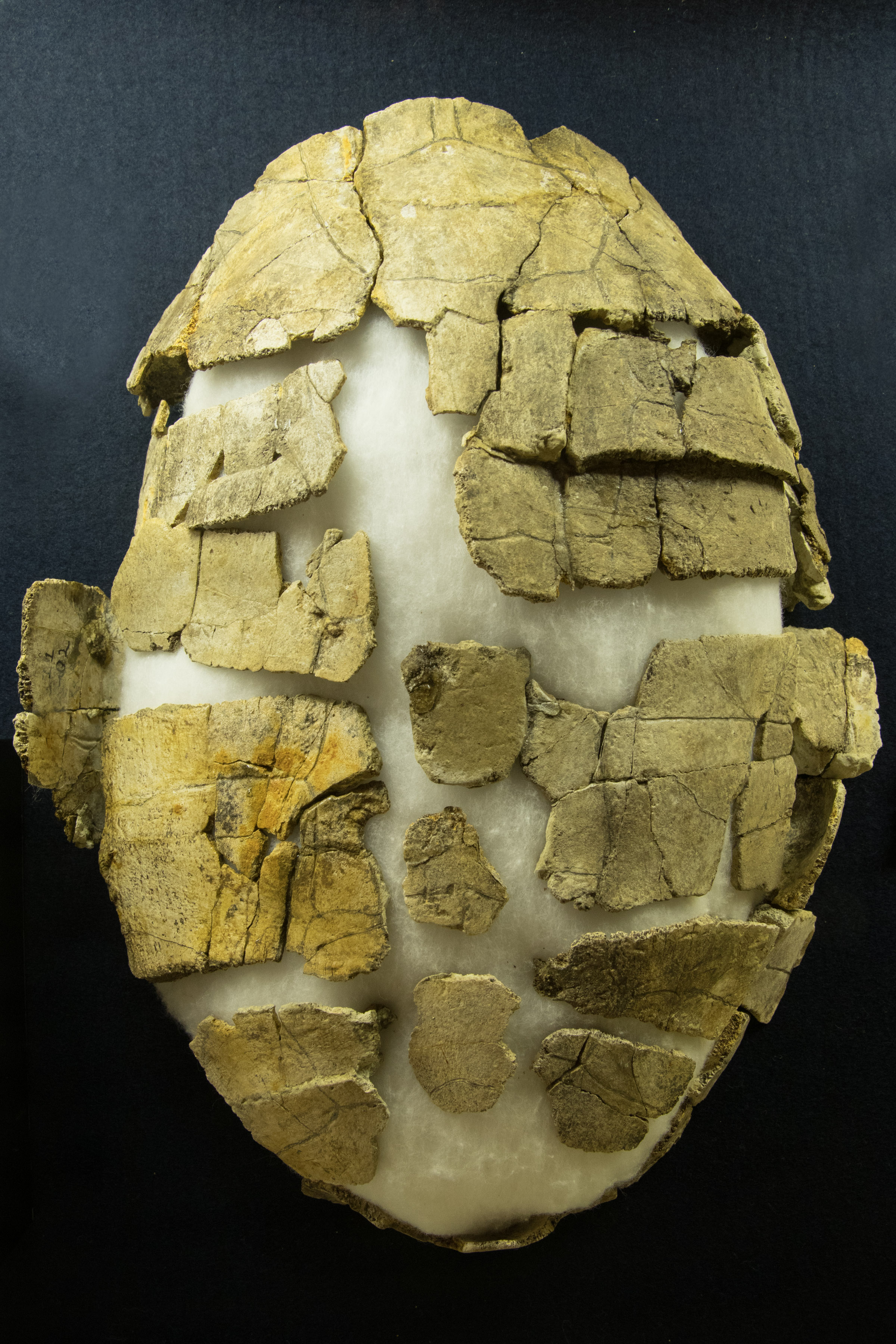 Fossil of Ocadia nipponica